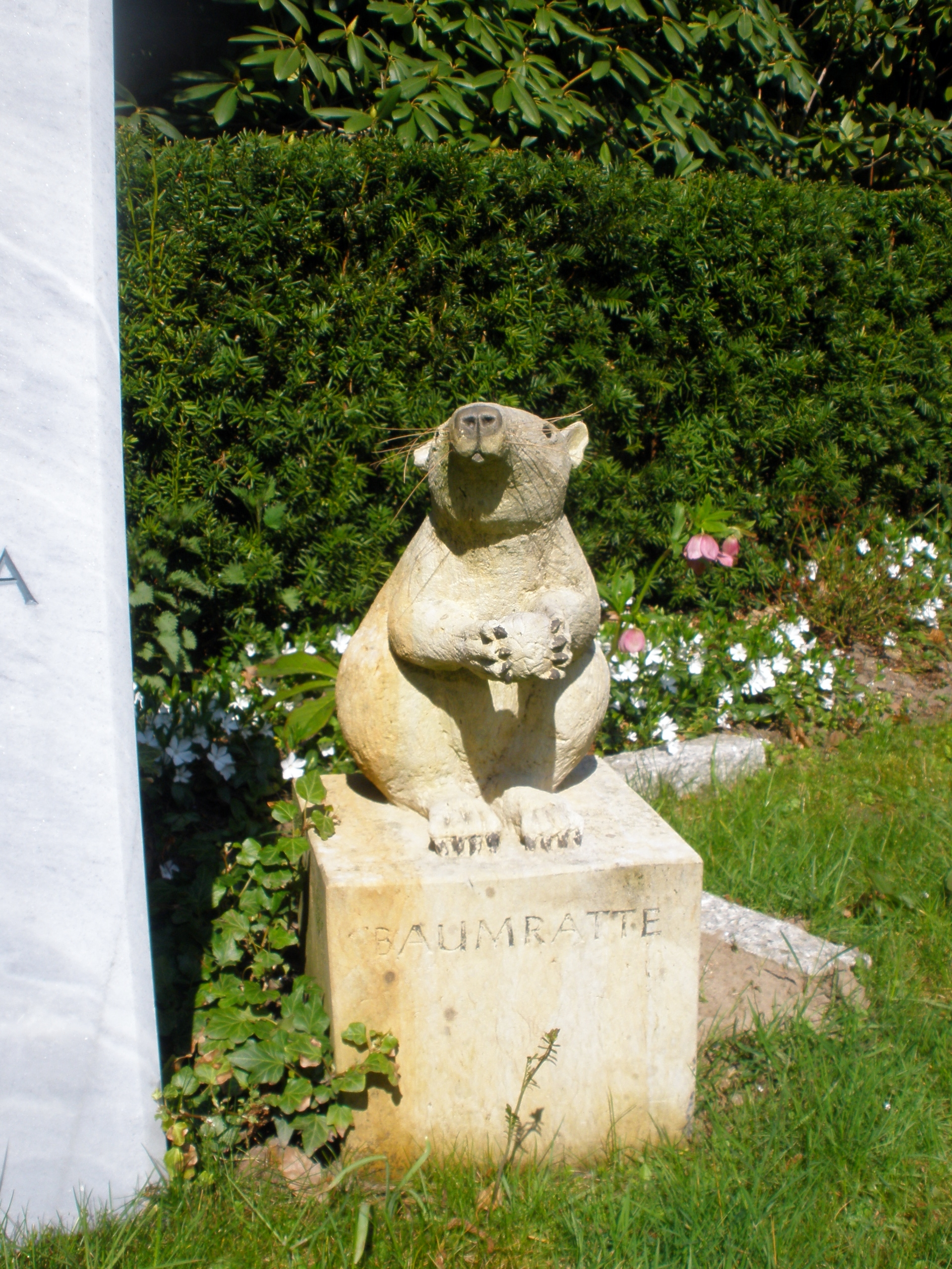 Grave of the zoologist Erna Mohr in the Garden of Women (Garten der Frauen), Ohlsdorf Cemetery, Hamburg, Germany.